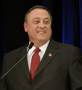 An official photograph from the Paul LePage for Governor campaign